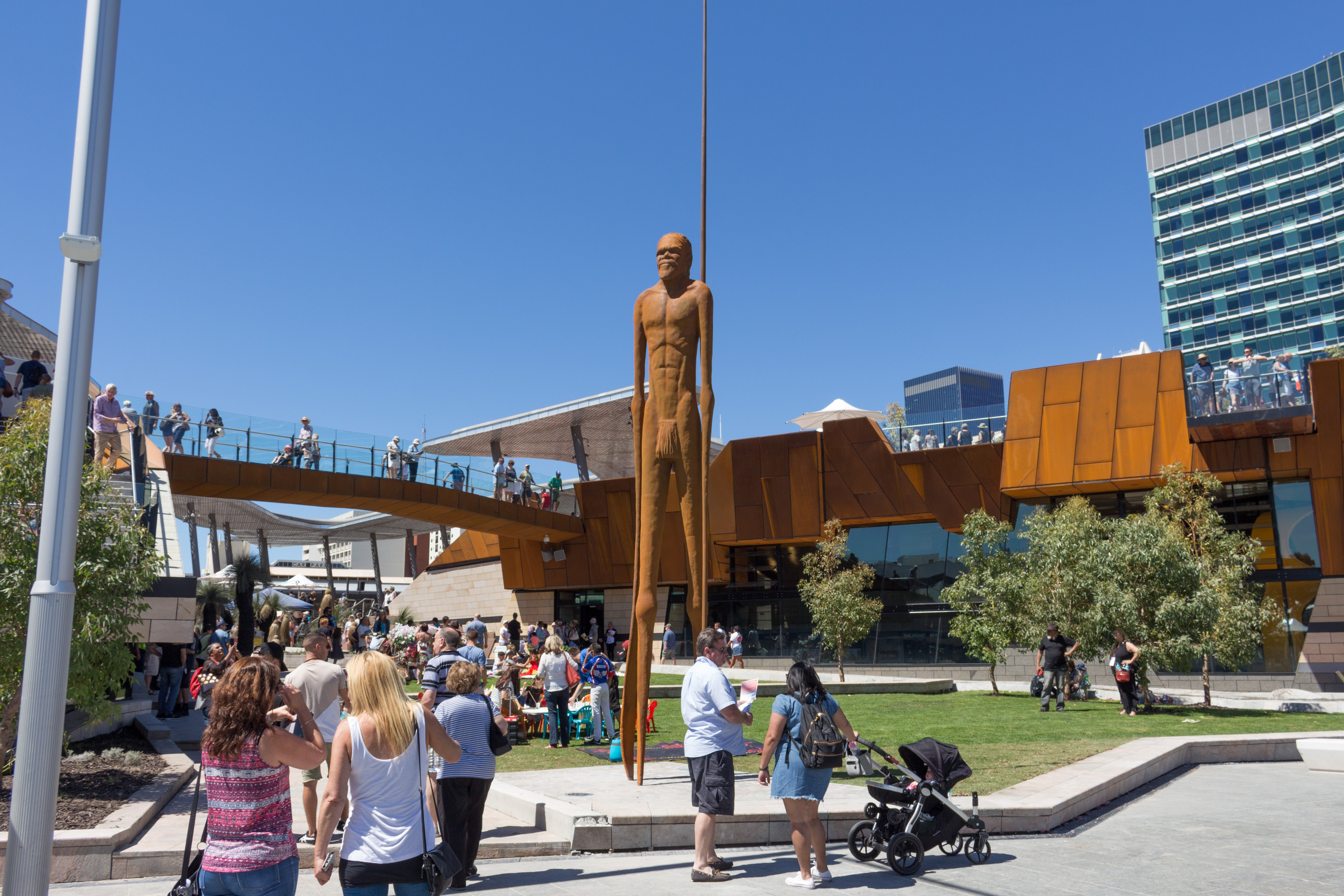 "Wirin" sculpture by Western Australian artist Tjyllyungoo at Yagan Square